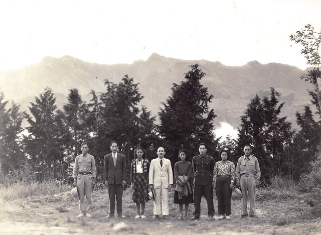 All three killed by brutal regime from China in 1954